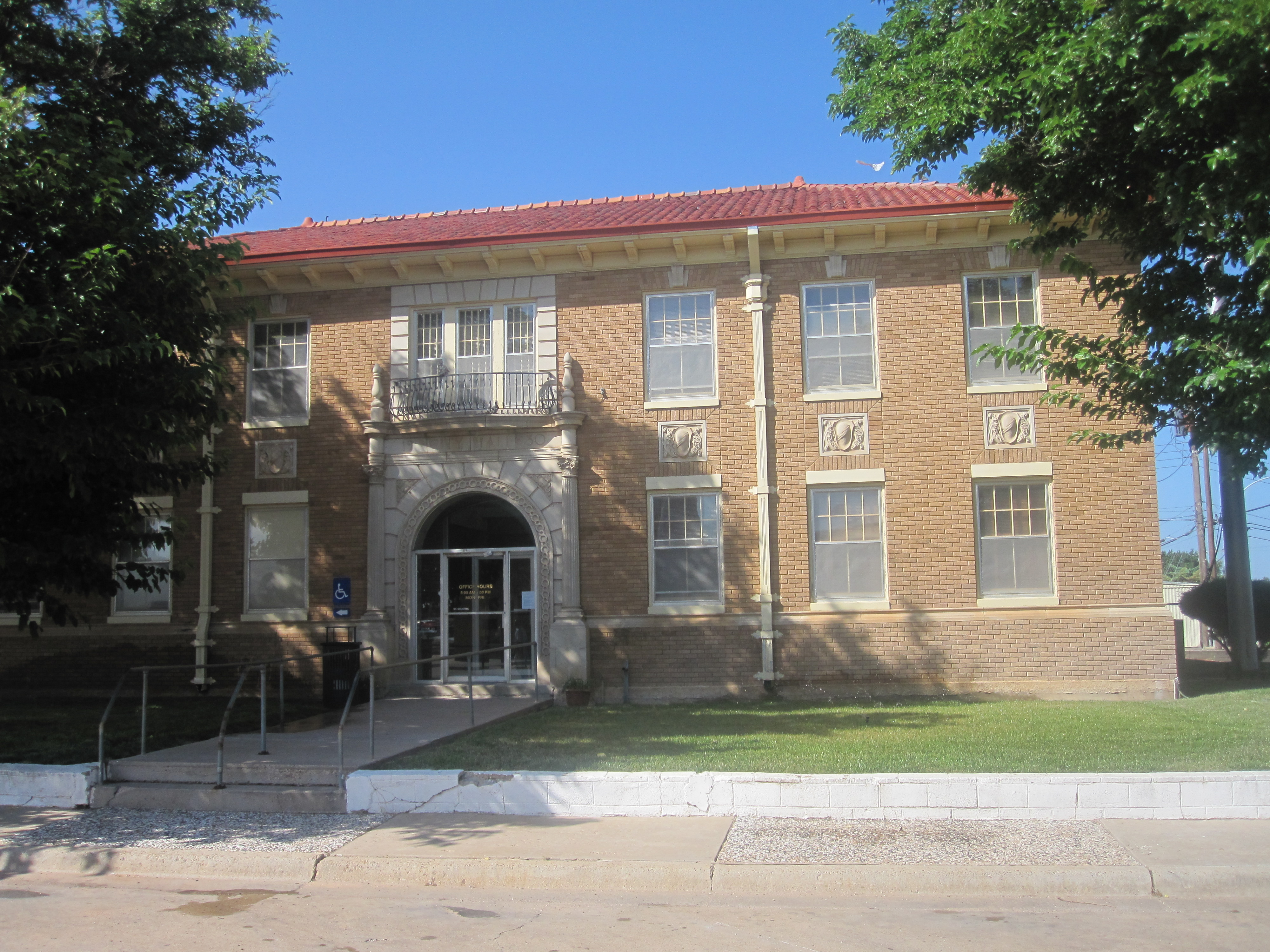 I took photo with Canon camera in Littlefield, TX.